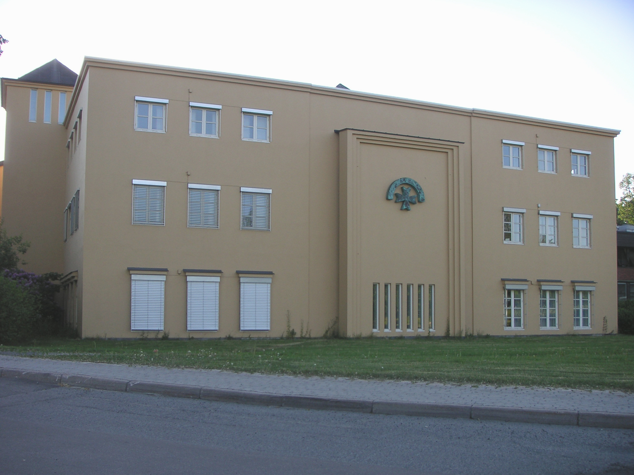 Diakonhjemmet in Oslo, a christian hospital and school of higher education.